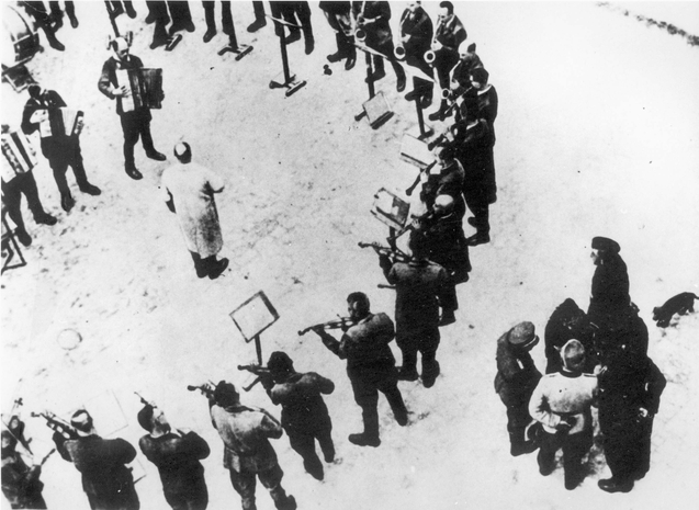 Inmates orchestra of Janowska Nazi concentration camp in Lviv, west Ukraine. 1941-1943. The orchestra played when the inmates departed for work and on their return. The orchestra was established by the Germans who amused themselves by mocking and humiliating the inmates.